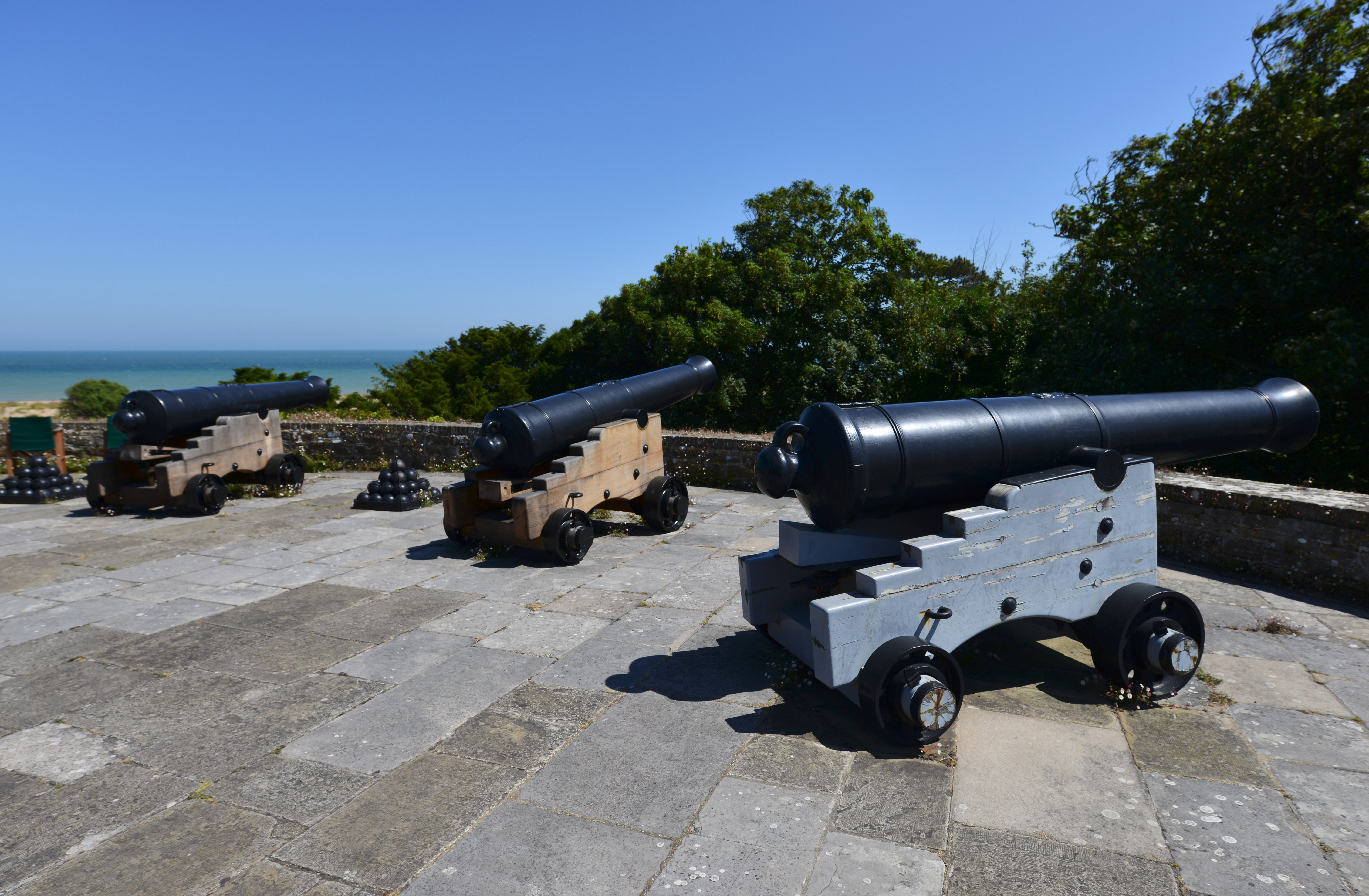 Photo by Michael Garlick